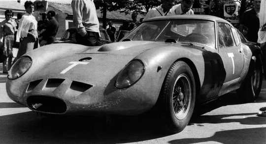 Street show with Ferrari 250 GTO prototype in 1961